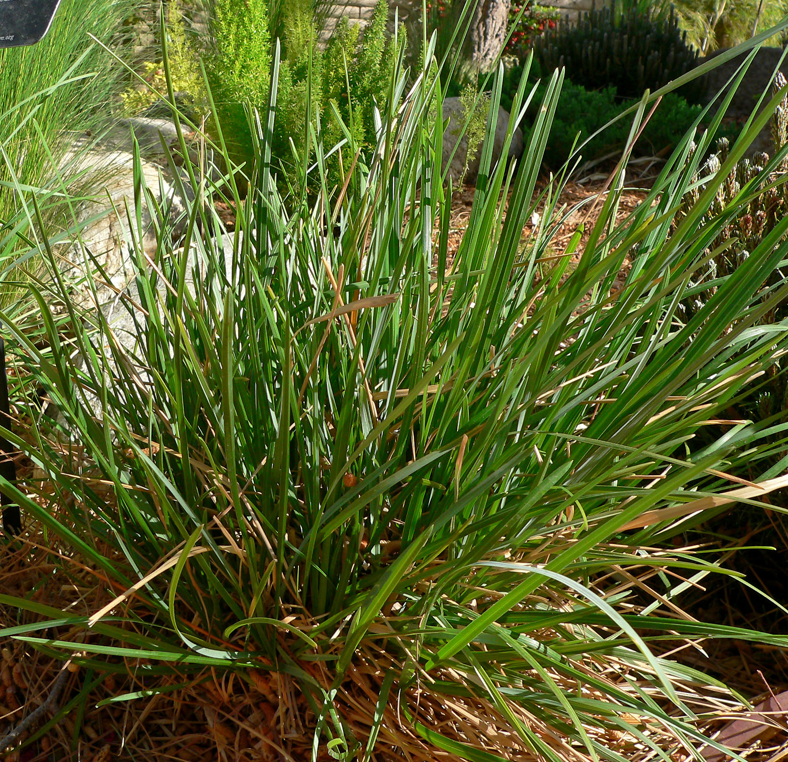 Sesleria heufleriana at the Springs Preserve garden, Las Vegas, Nevada